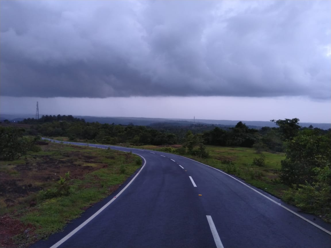 Gumpe hill